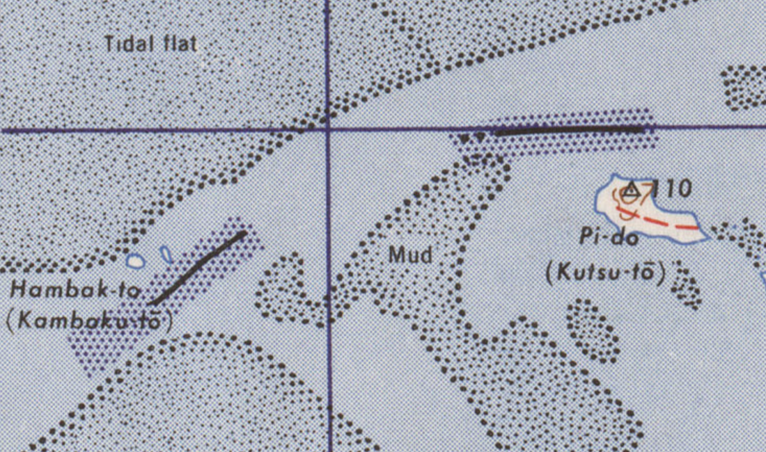 1944 Map of Inchon, South Korea by the Army Map Service, U.S. Army